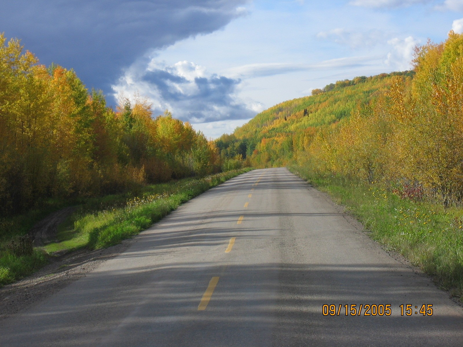 Photo of bypassed segment of Alaska Highway still in use, west of Fort Nelson, British Columbia, Canada